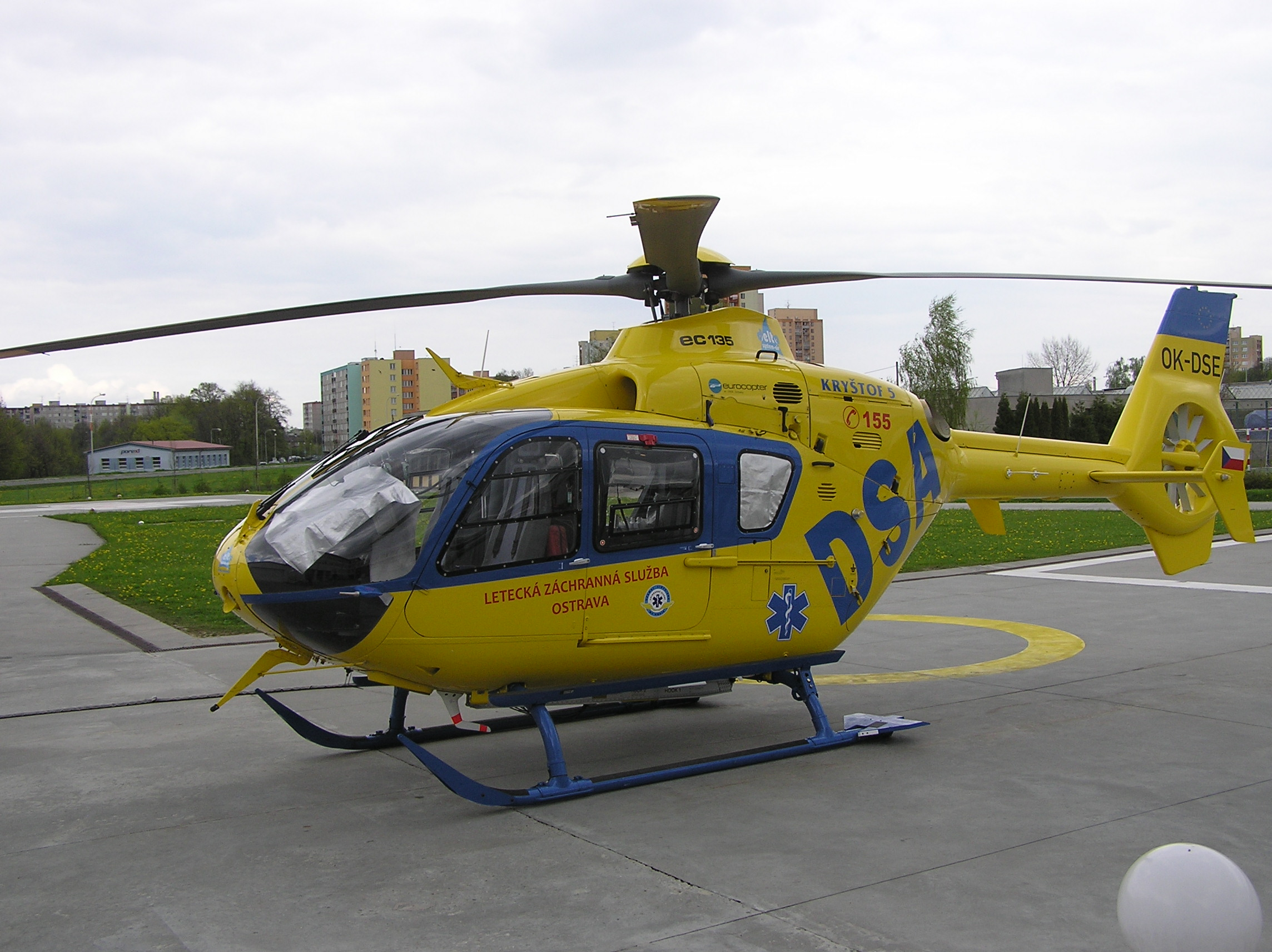 Rescue helicopter of the Moravian-Silesian Region in the Czech Republic, Kryštof 05, EC 135 T2+, Ostrava